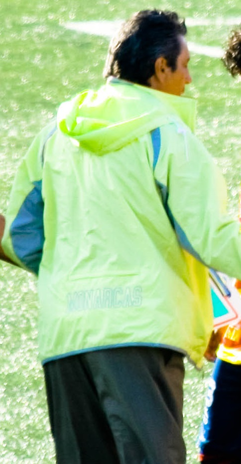 Mexican manager and former player Tomás Boy